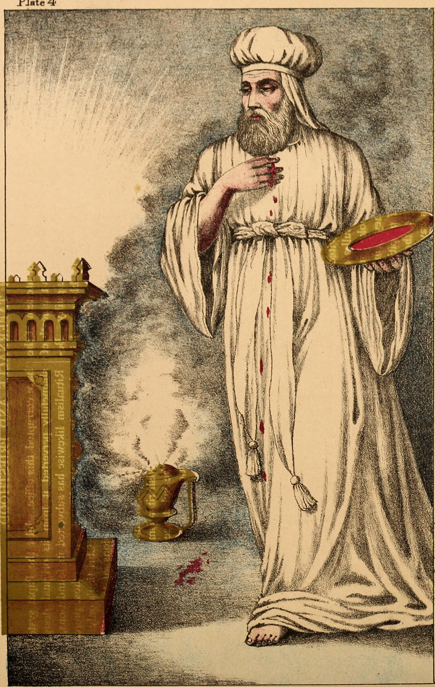 Title: The Jewish tabernacle and priesthood Year: 1874 (1870s) Authors: Needham, George C. (from old catalog) Subjects: Publisher: (n.p.) Text Appearing Before Image: may offer both gifts and sacrificesfor sins. (Heb. v. 1.) The qualifications of the High-Priestwere natural, mora^ and legal. Chosen from the tribe ofLevi, he must be a descendant of Aaron, and be free from allblemishes, superfluities, defects and physical infirmities. (Lev.xxi. 17-21.) As possessed with moral qualities, being merciful andcompassionate (Heb. v. 2), he received appointment to officeby a special call from God. (Heb. v. 4.) Marrying none buta virgin (Lev. xxi. 14), he must be separated from all worldli-ncss and defilement, and devoted to the welfare of the nation. In these many respects Israels High-Priest shadowed forththe qualifications of the Lord Jesus Christ in His Priestlycharacter. Called of God to this office; holy, harmless andundefiled in His person and character; overflowing with com-passion ; considerate toward His people, and espousing to Him-self the Church as a virgin, He enters the sacred office en-dowed with all necessary qualifications. CD T3 m Z m DO m Text Appearing After Image: is H CO o-naom —I - O o 55